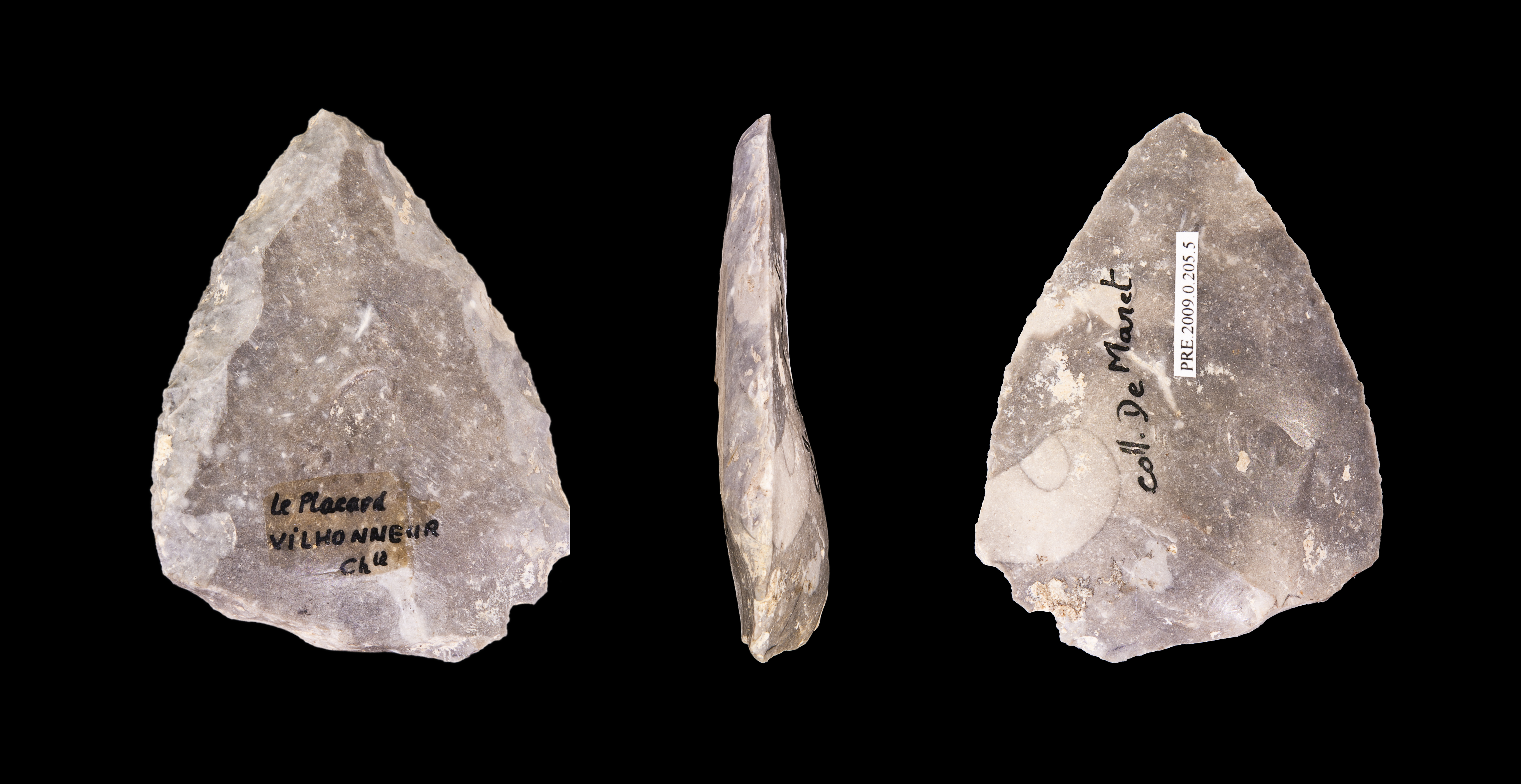 Retouched Levallois point - Different views of the same specimen.